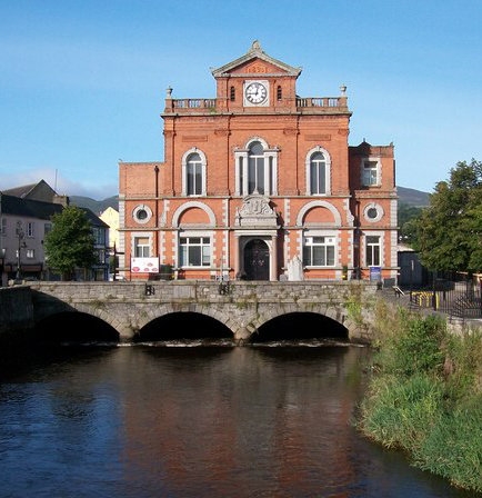 Newry Town Hall